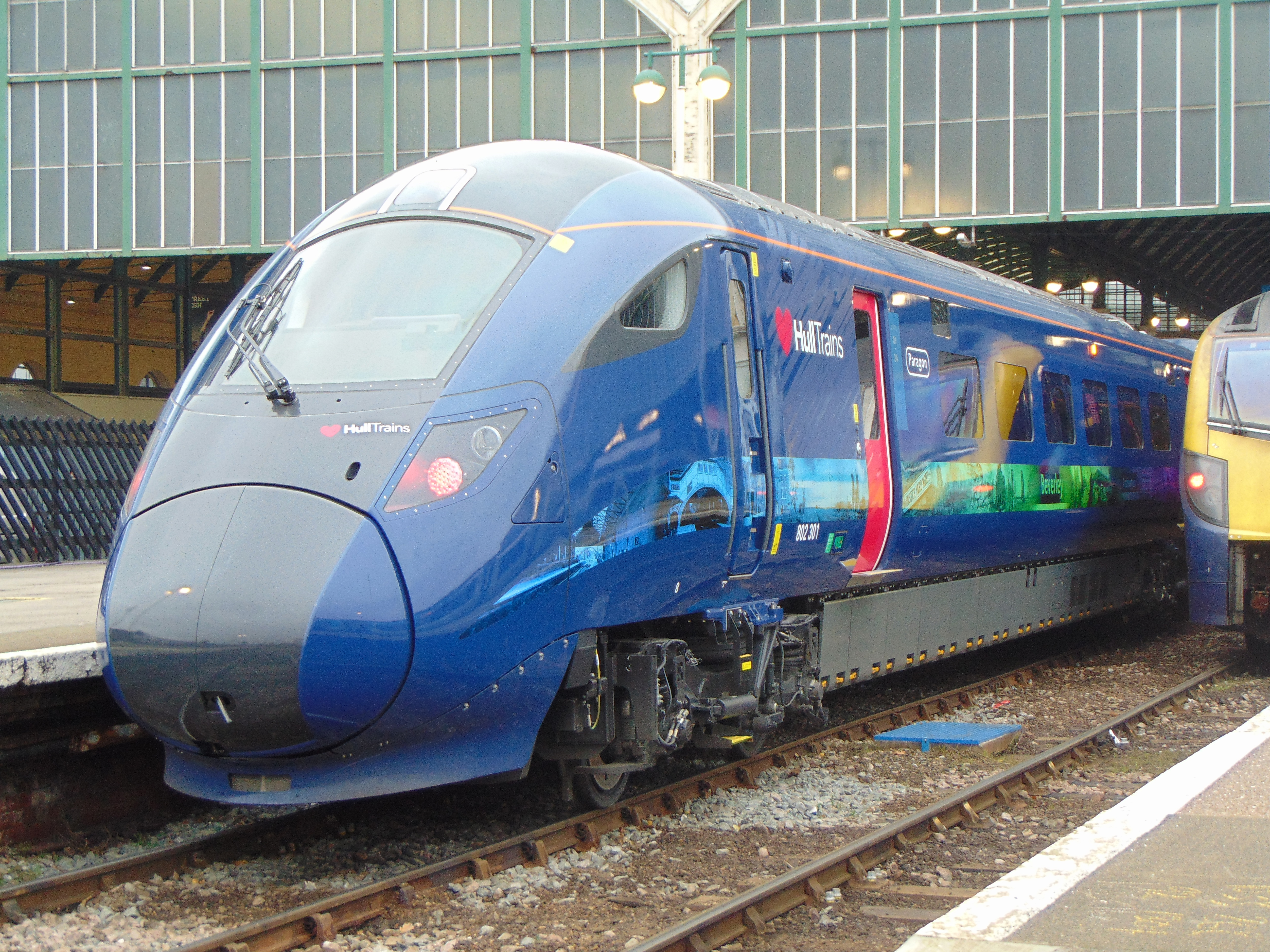 Hull Trains class 802 at Hull Paragon Interchange